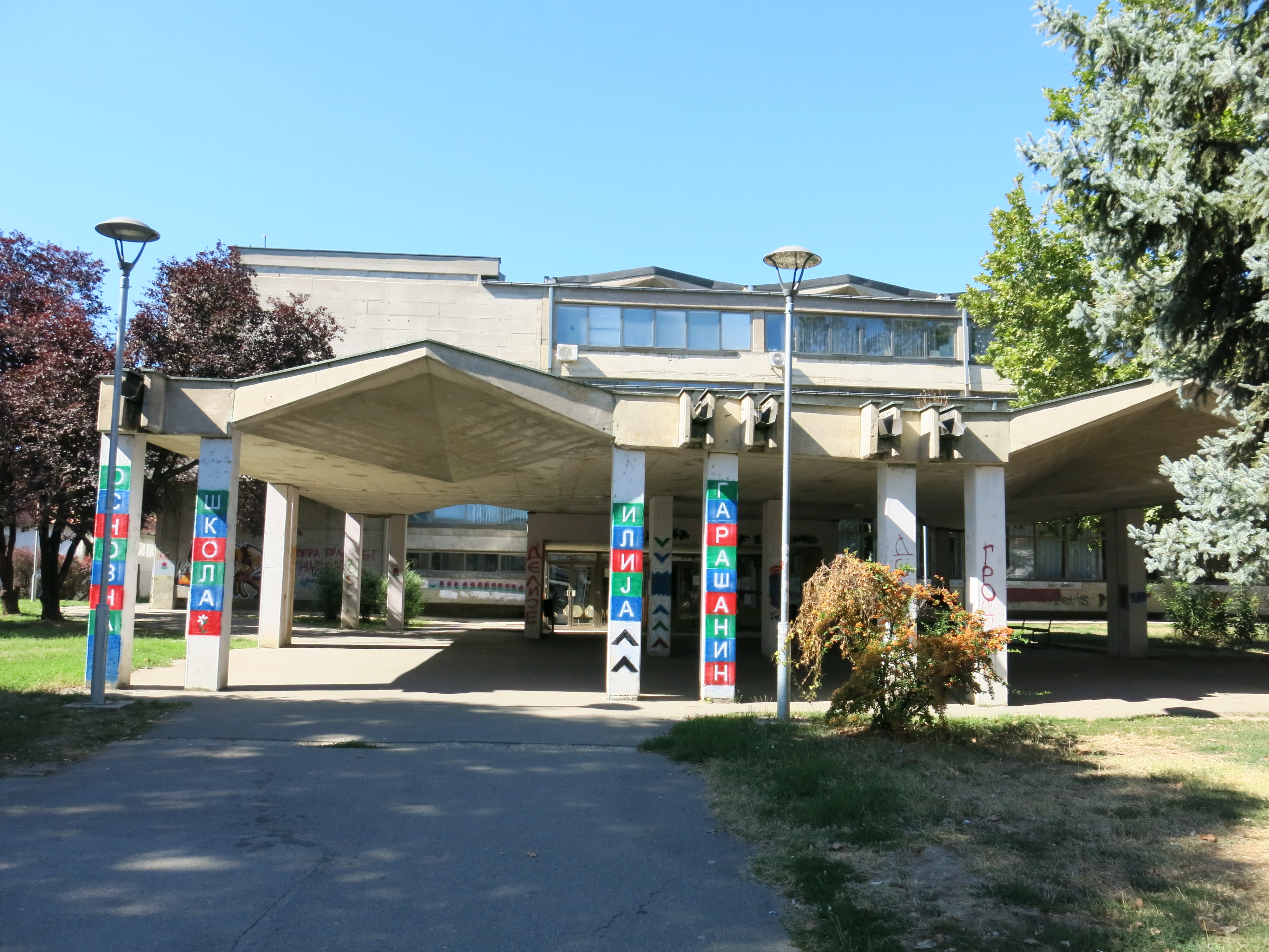 Grocka, Elementary school Ilija Garašanin